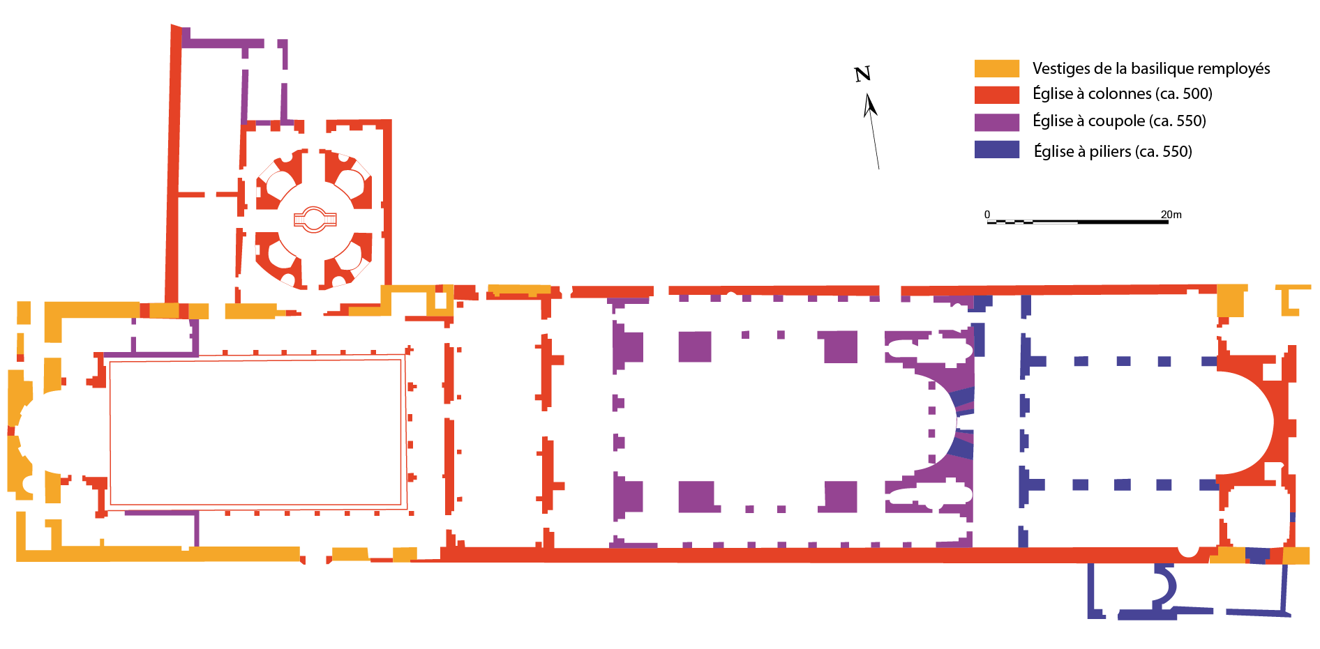 Ephesos Church of Mary building phases. After Foss [1979], fig. 14, p. 53. Datation after Karwiese [1999].